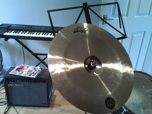 China Cymbal turned up in the usual manner. It is a Stagg SH 16 inch China